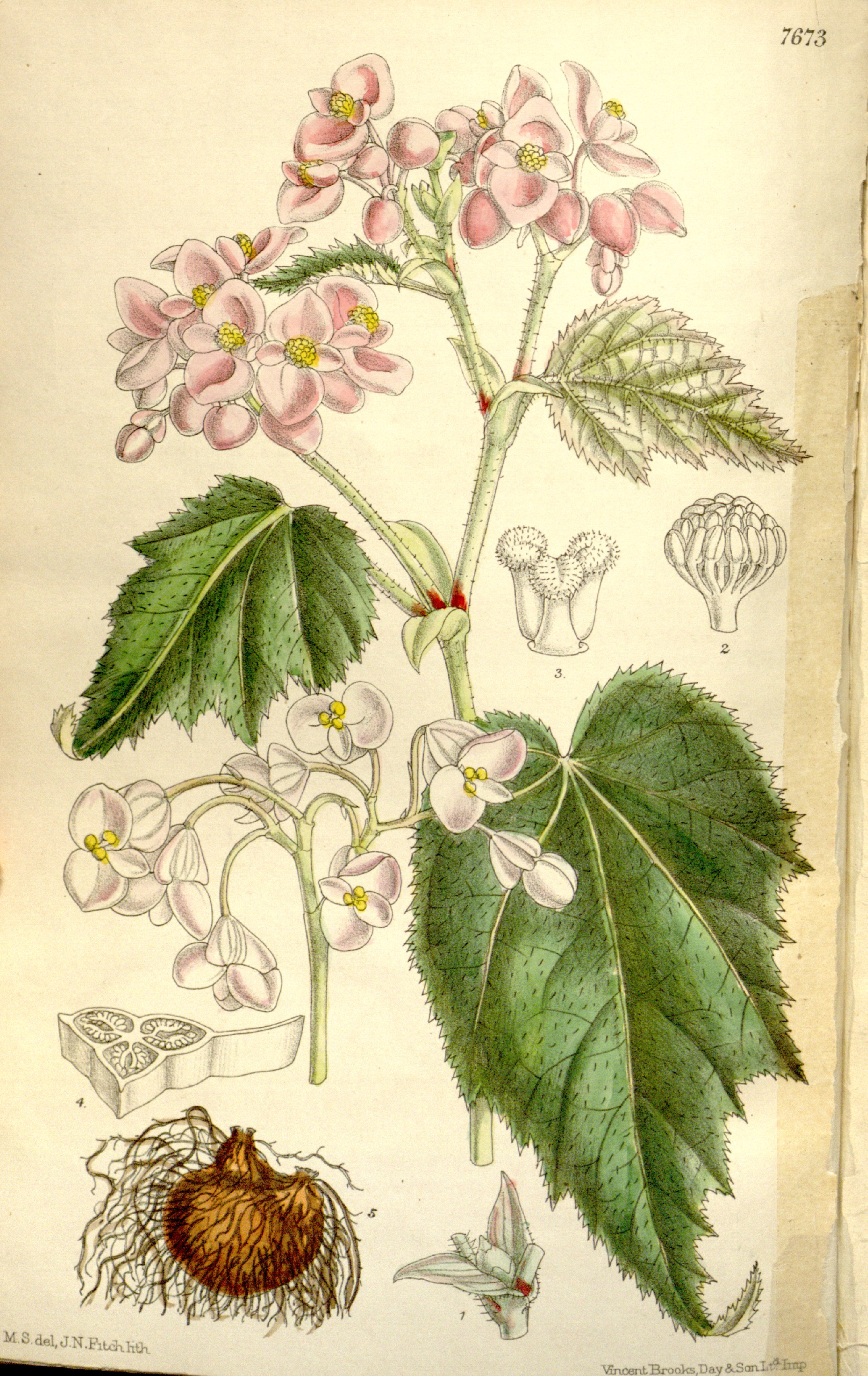 Begonia grandis subsp. holostyla